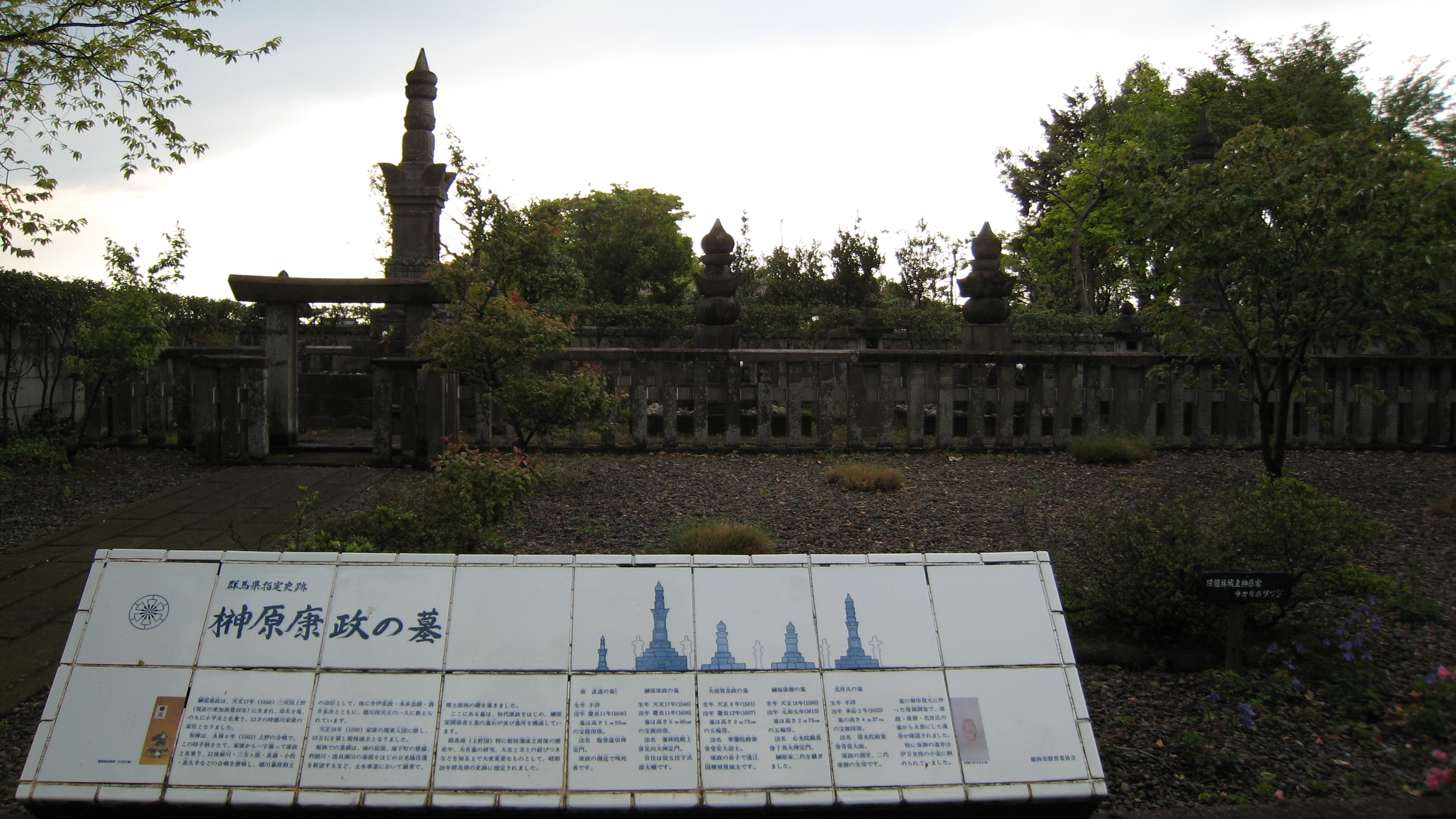 Sakakibara Yasumasa's tomb at Zendo-ji(temple) ,Tatebayashi ,Gunma prefecture,Japan